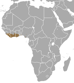 Olive Colobus (Procolobus verus) range